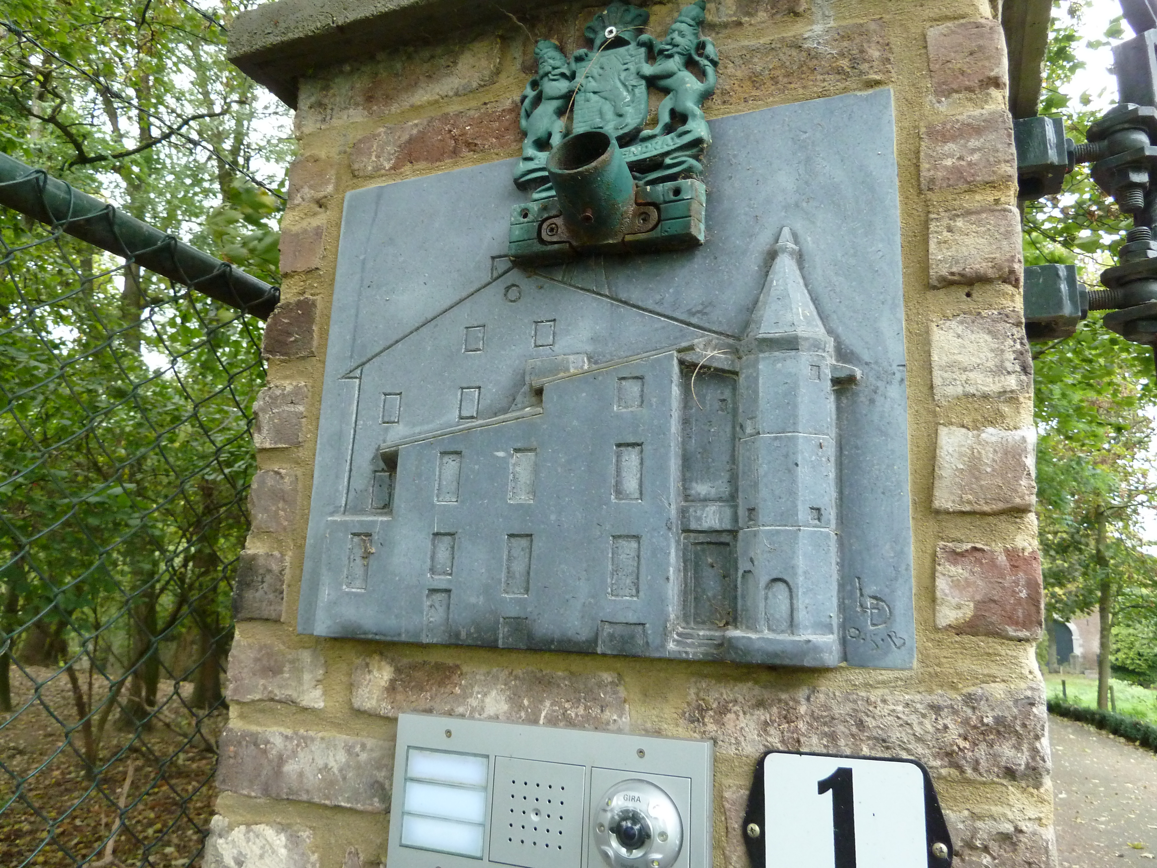 Castle Oost, Oost-Maarland, Limburg, the Netherlands